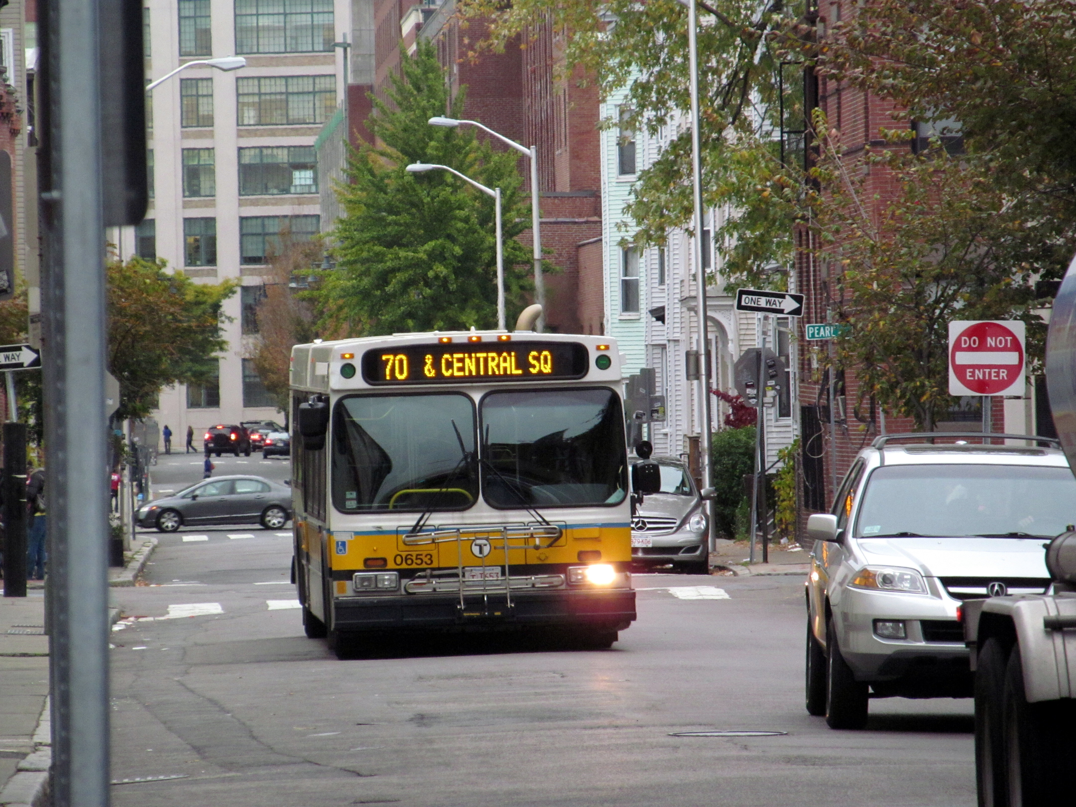 An MBTA bus on the #70 route approaches the bus stop on Green Street at Magazine Street near Central Square, Cambridge